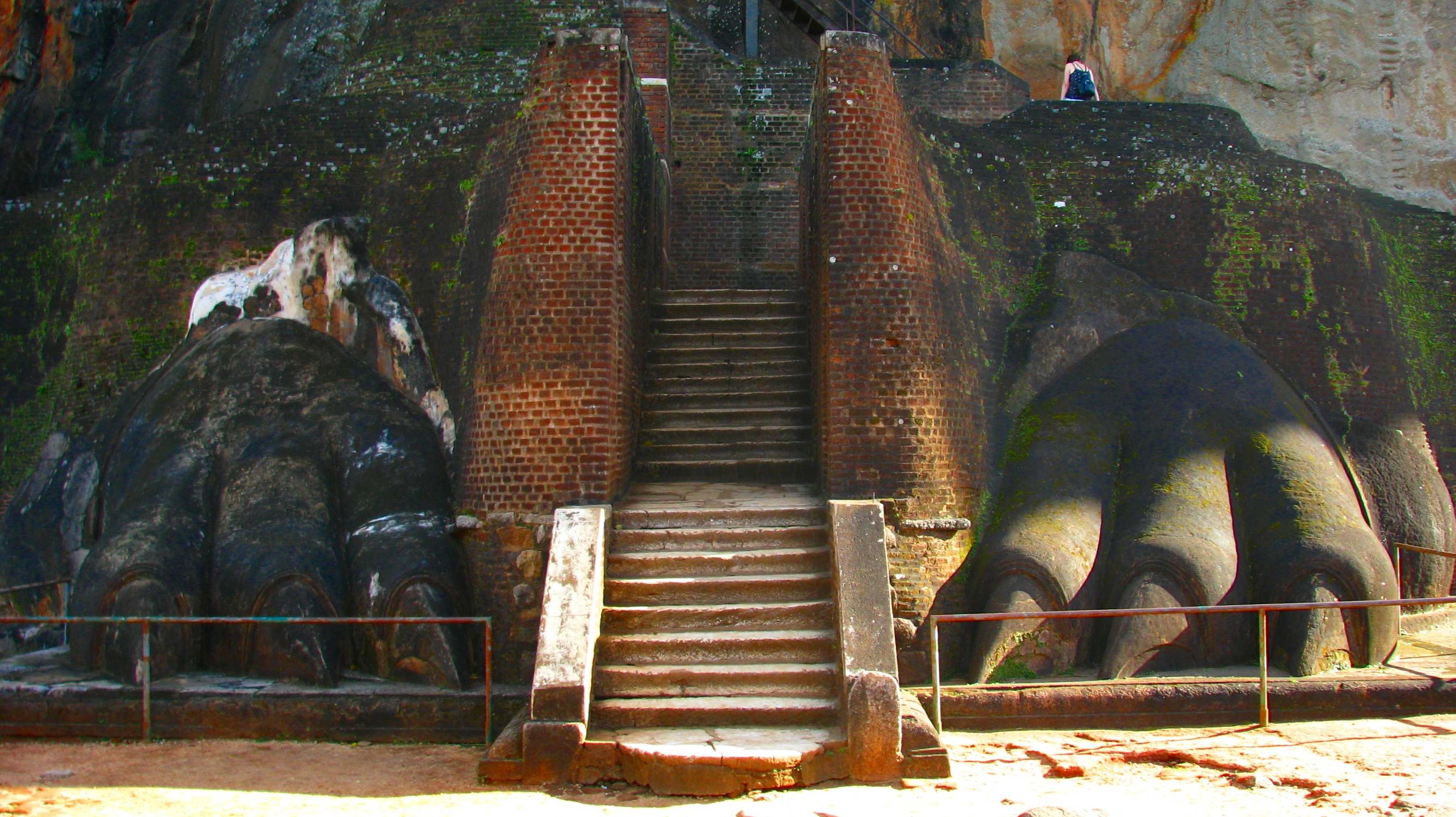 Stair case at the top of Sigiriya rock